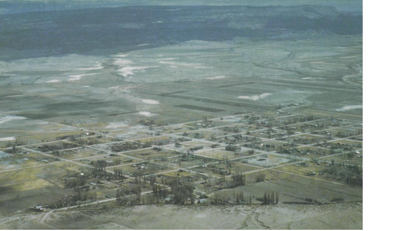 Town of Emery, circa 1950s